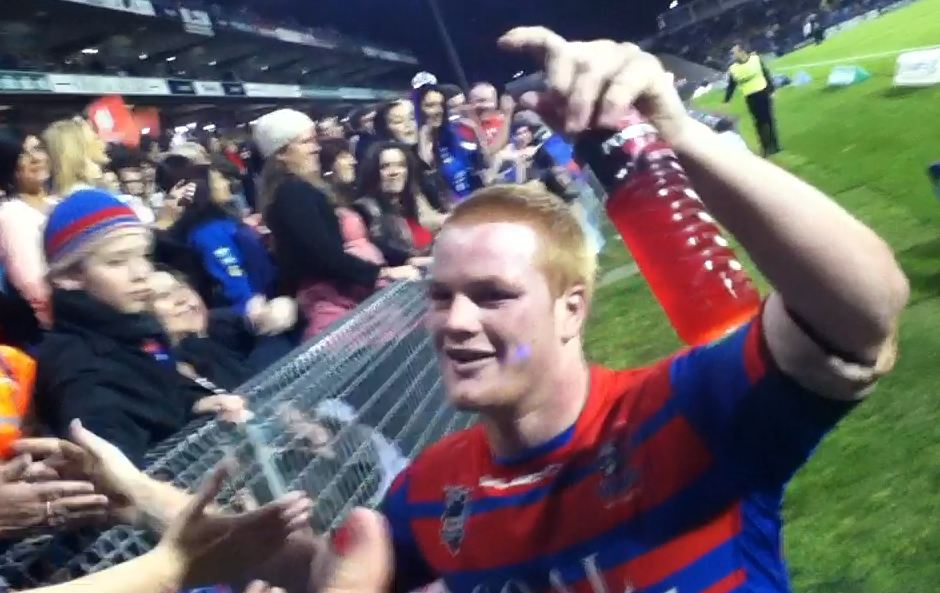 Joel Edwards celebrating after winning Round 26.